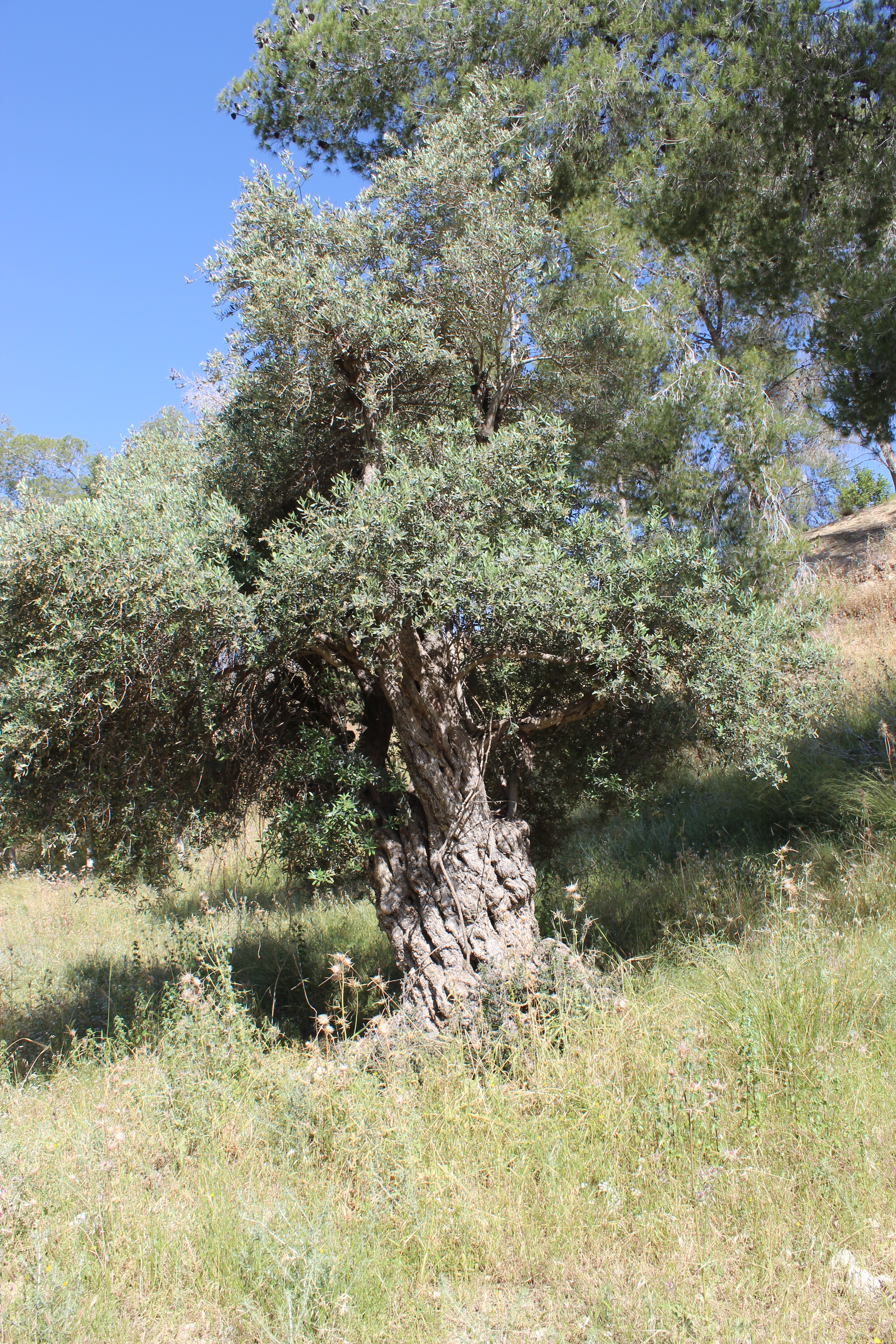 Old olive tree near Ein el-Kezbe, on slope of mountain south of Bayt Nattif